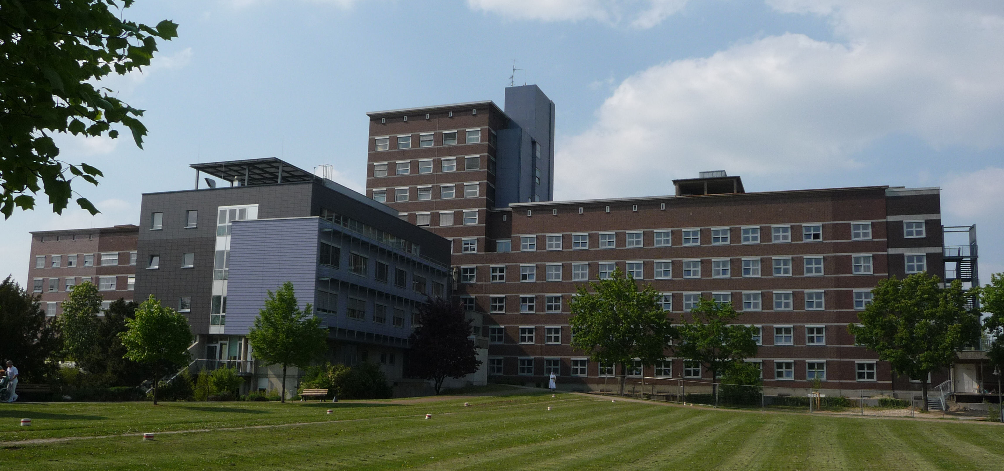 Hospital in Ludwigshafen, Germany